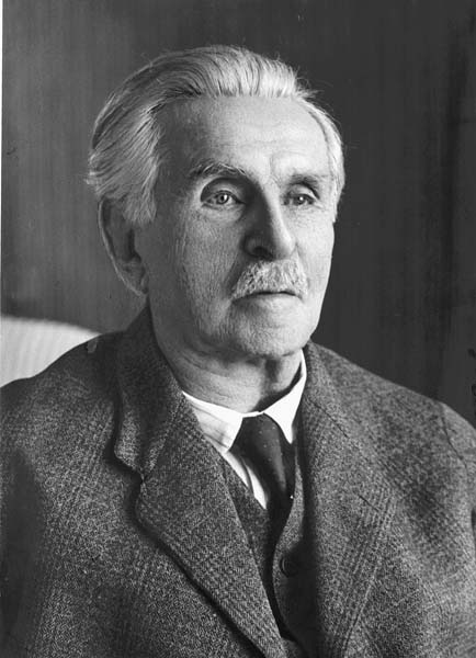 Photograph of the Finnish industrialist Birger Hallman (1851–1936) on his 85th birthday.